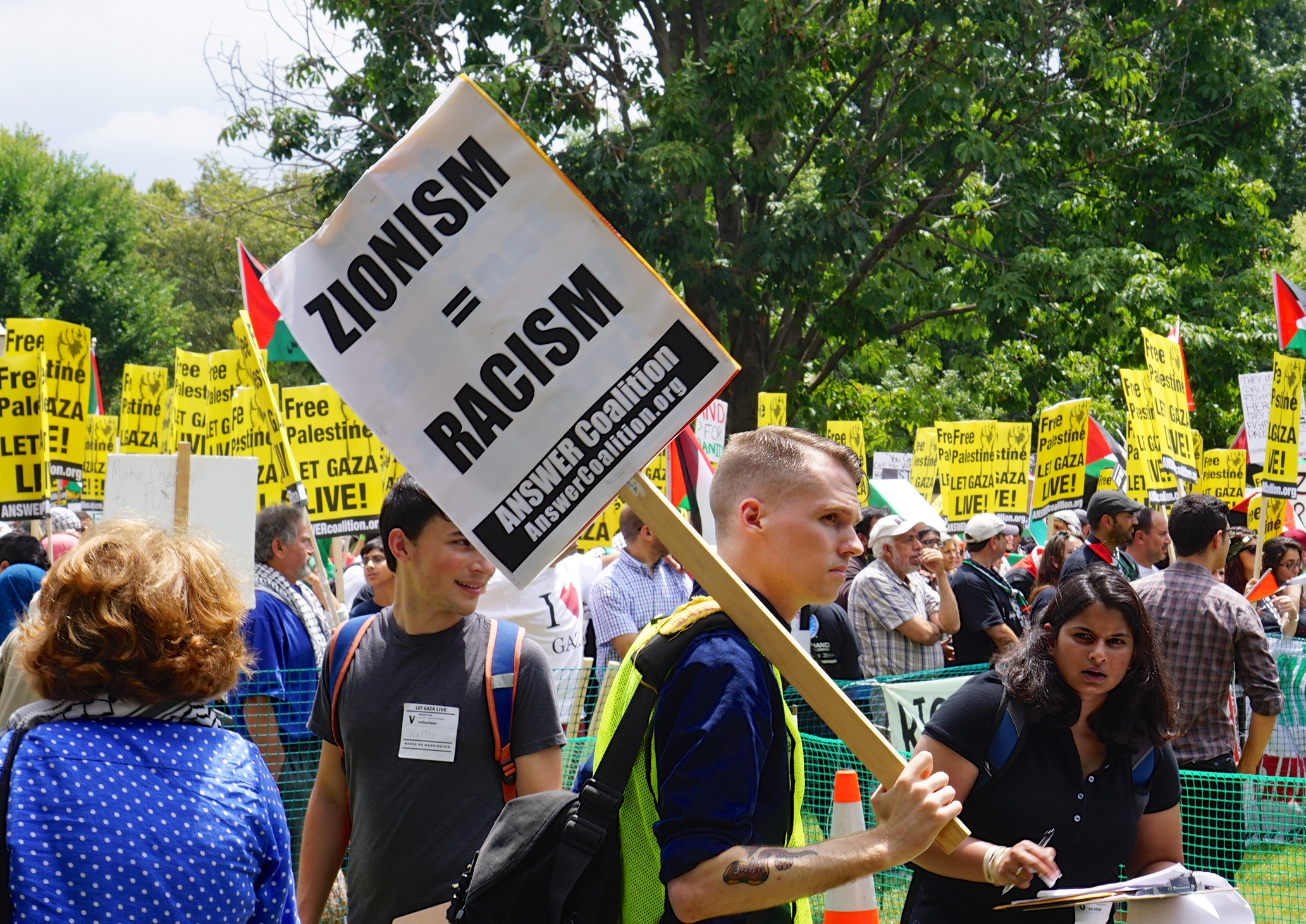 Israel Photos 2014.08.02 Anti-Israel Protest